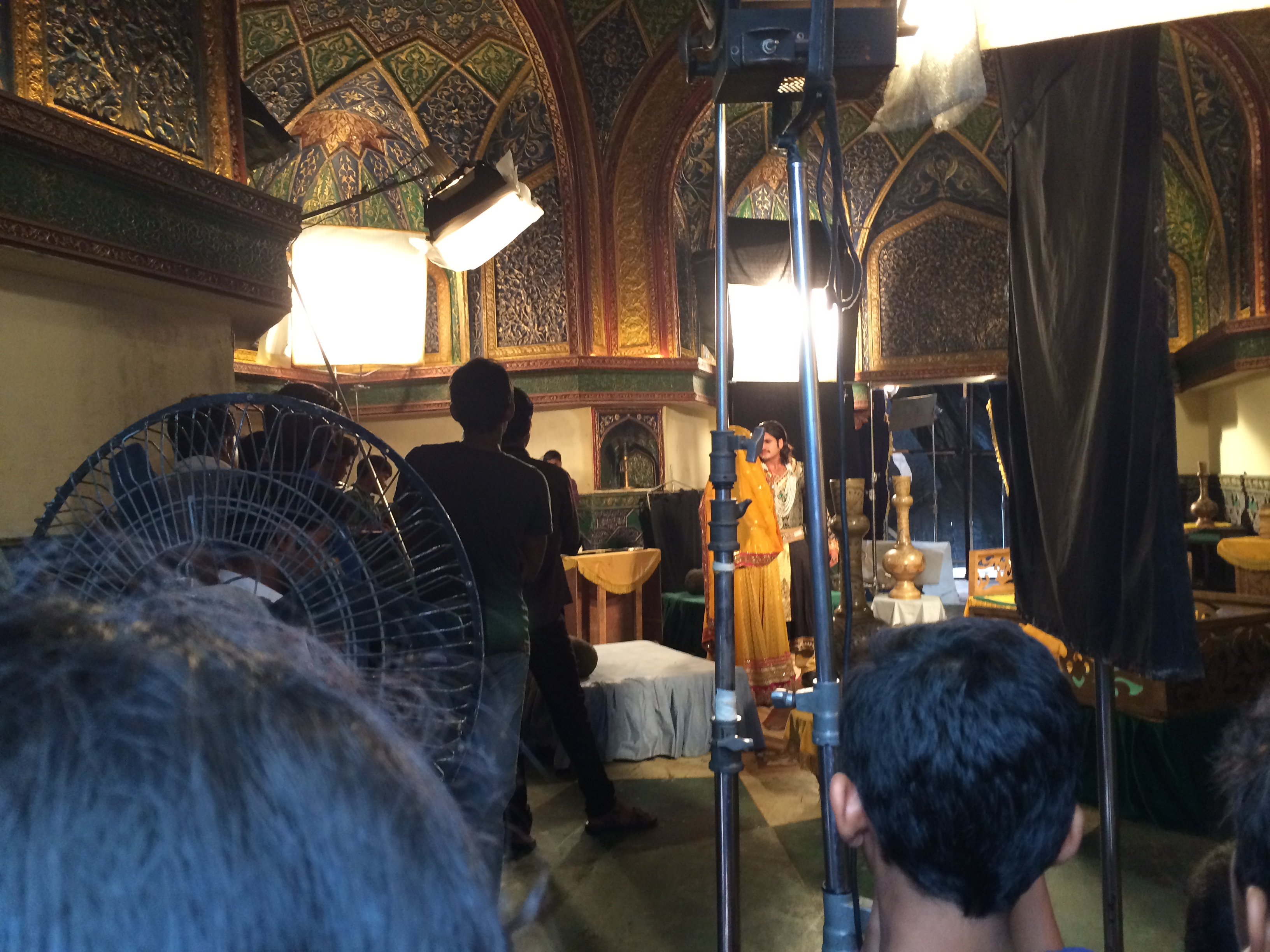 NDStudios